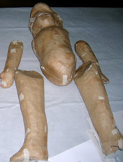 Cartonería doll in progress from Miss Lupita project